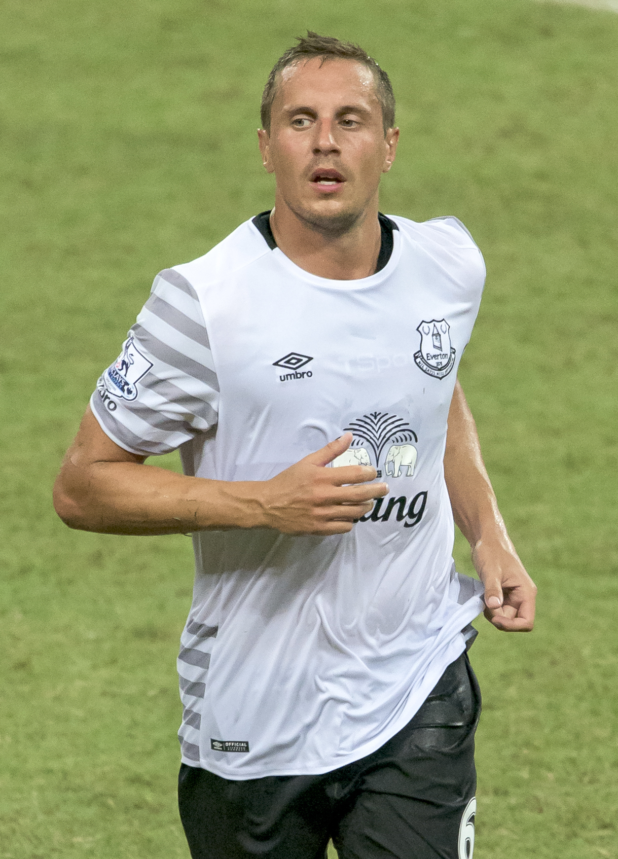 phil jagielka 2015 everton singapore barclays asia